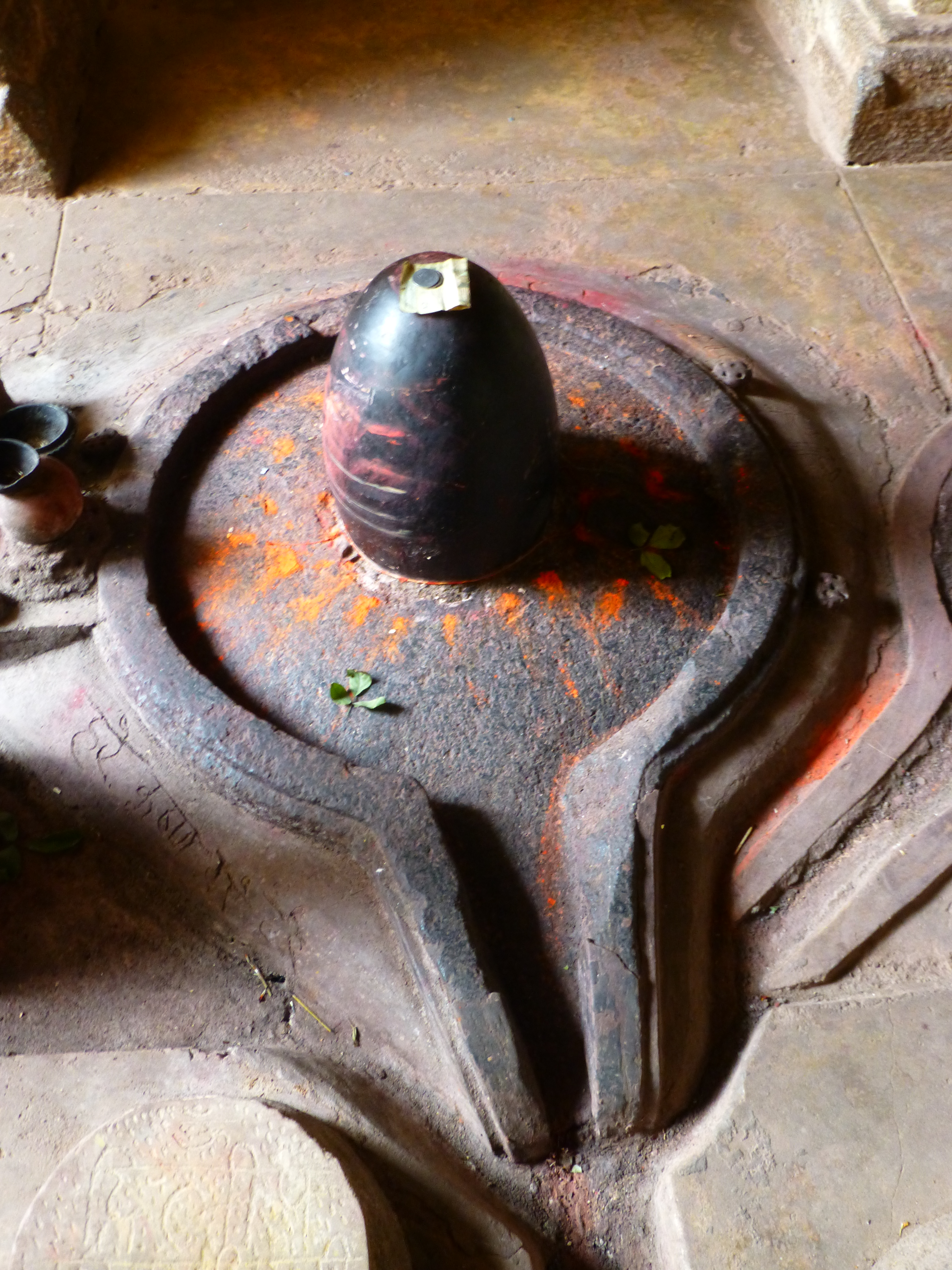 030 Shiva Lingam at Rajgir Photograph from Rajgir in Bihar taken by Anandajoti.